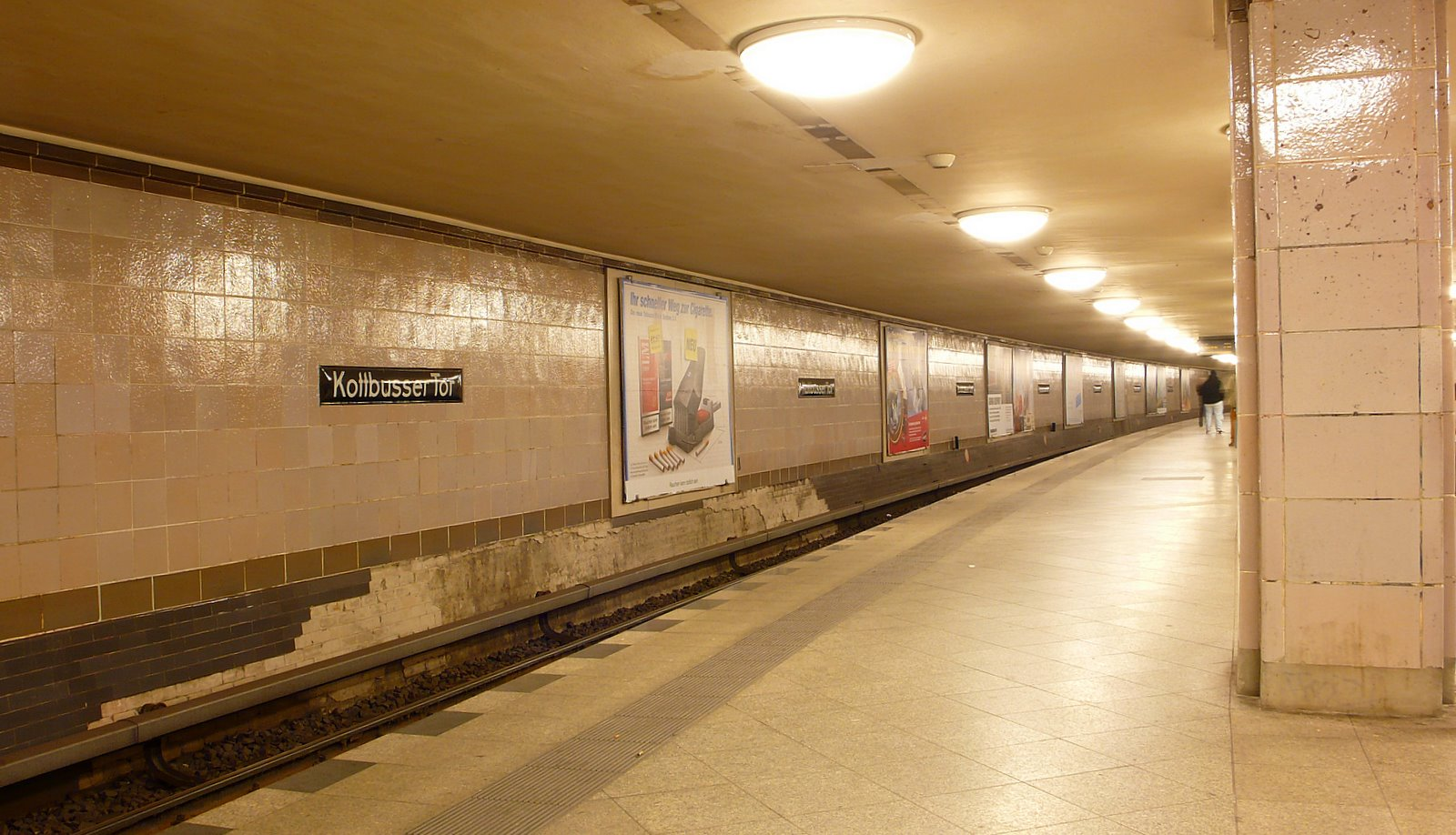 Subway Kottbussertor